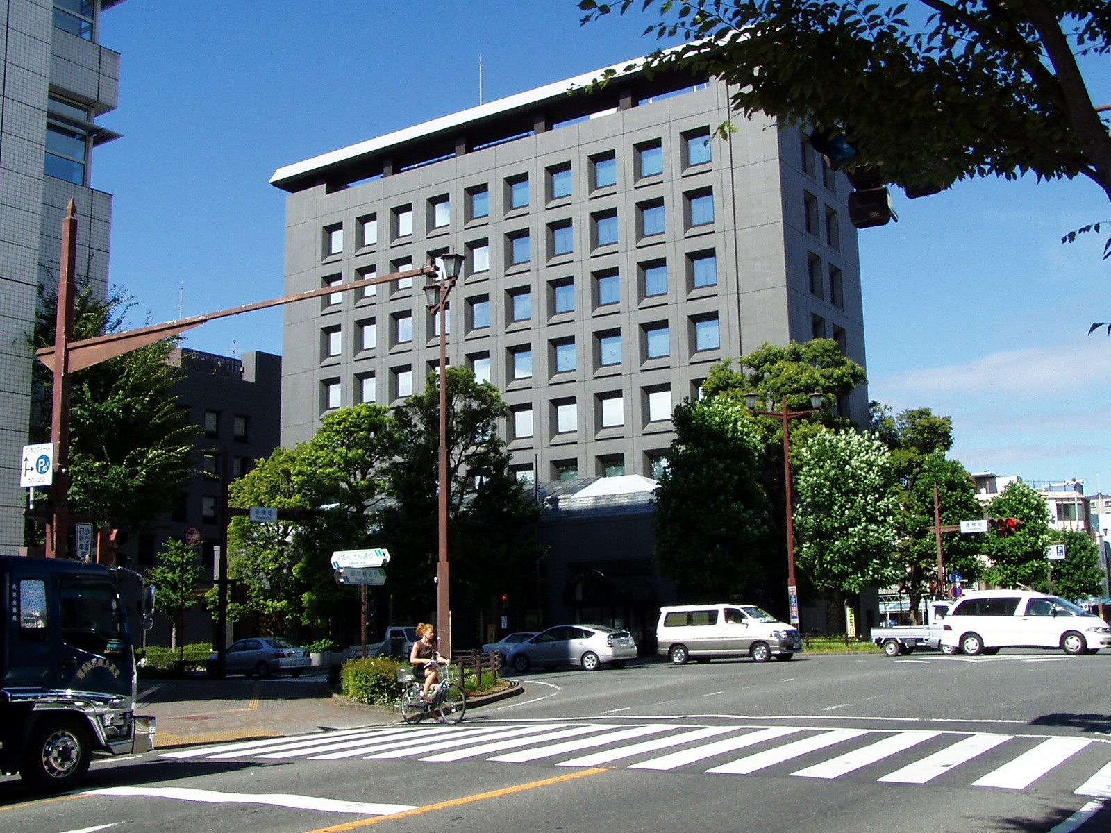 SURUGA BANK Headquarters.